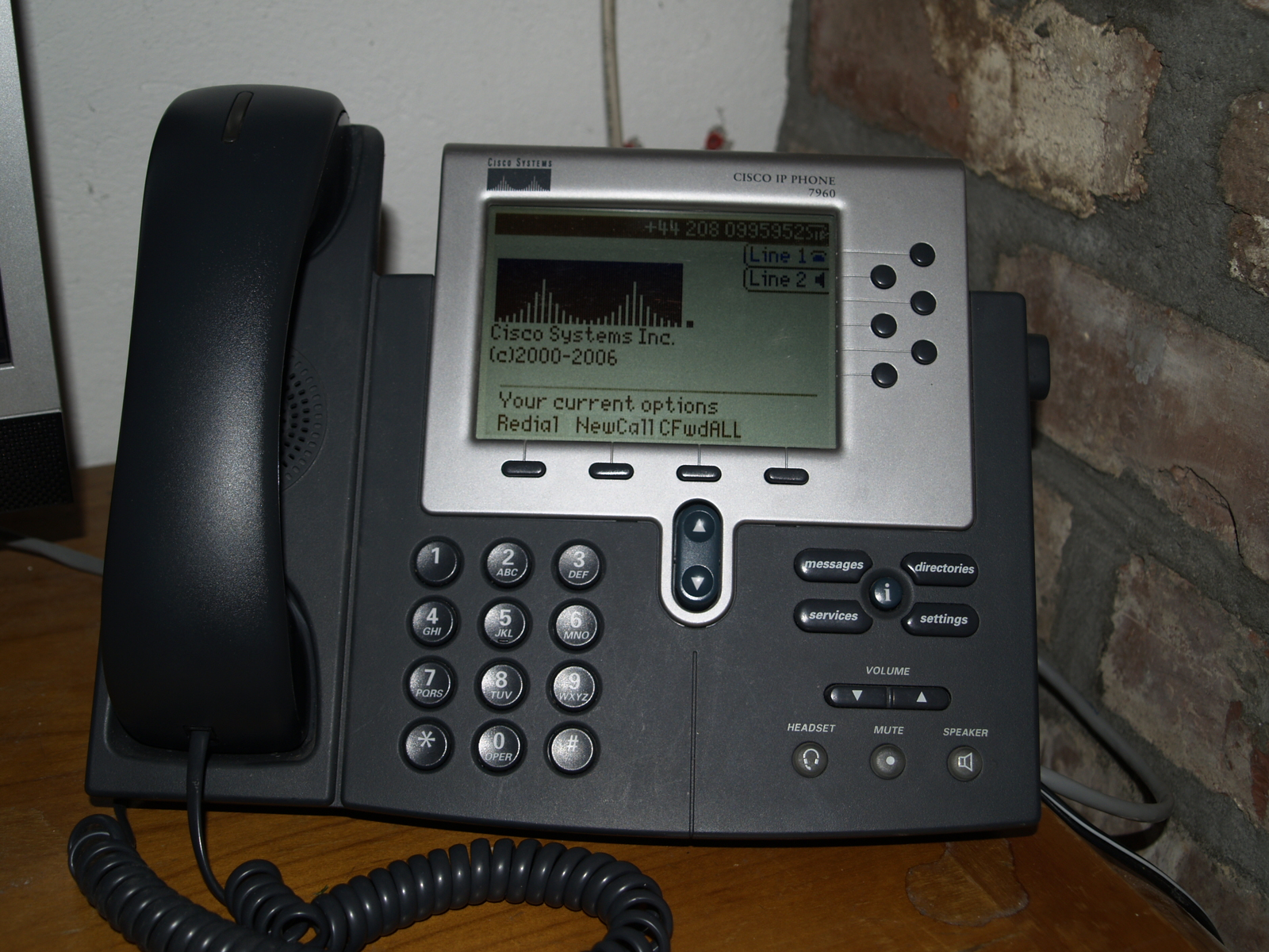 A Cisco 7960G IP telephone